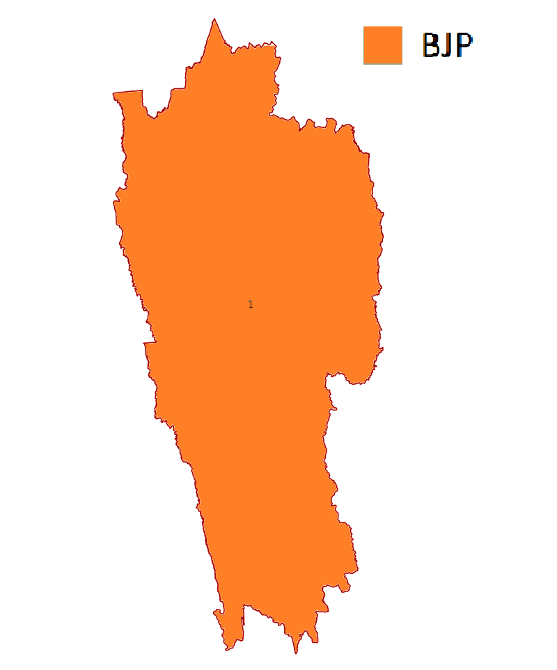 Seat Sharing of NDA in Mizoram in Indian General Election, 2019